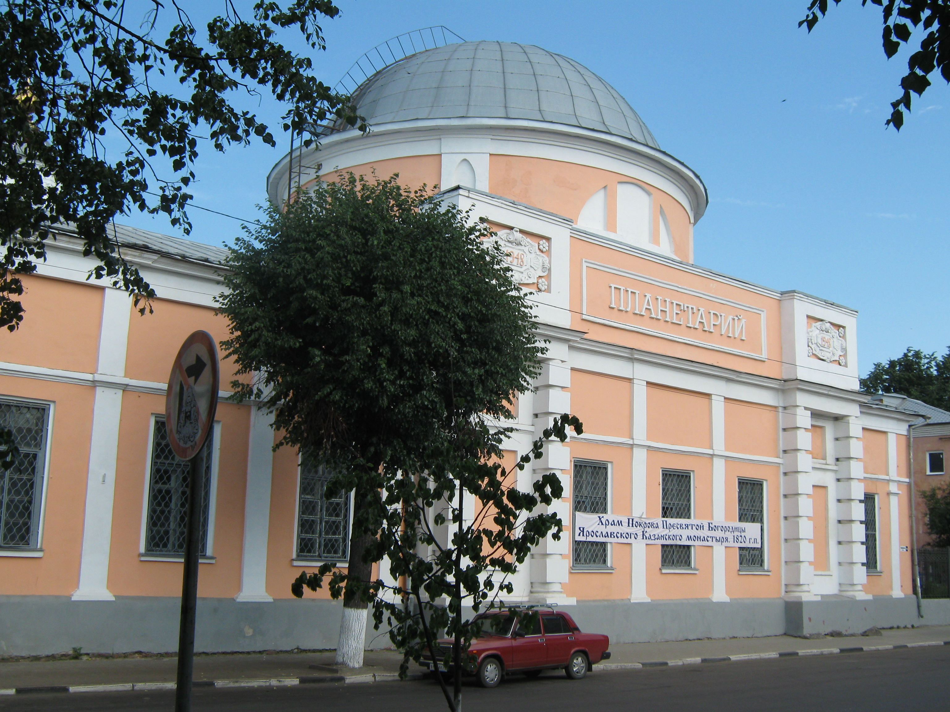 Old planetarium building in Yaroslav (Trefoleva street). Nowdays - Church of the Intercession of the Kazanskiy nunnery